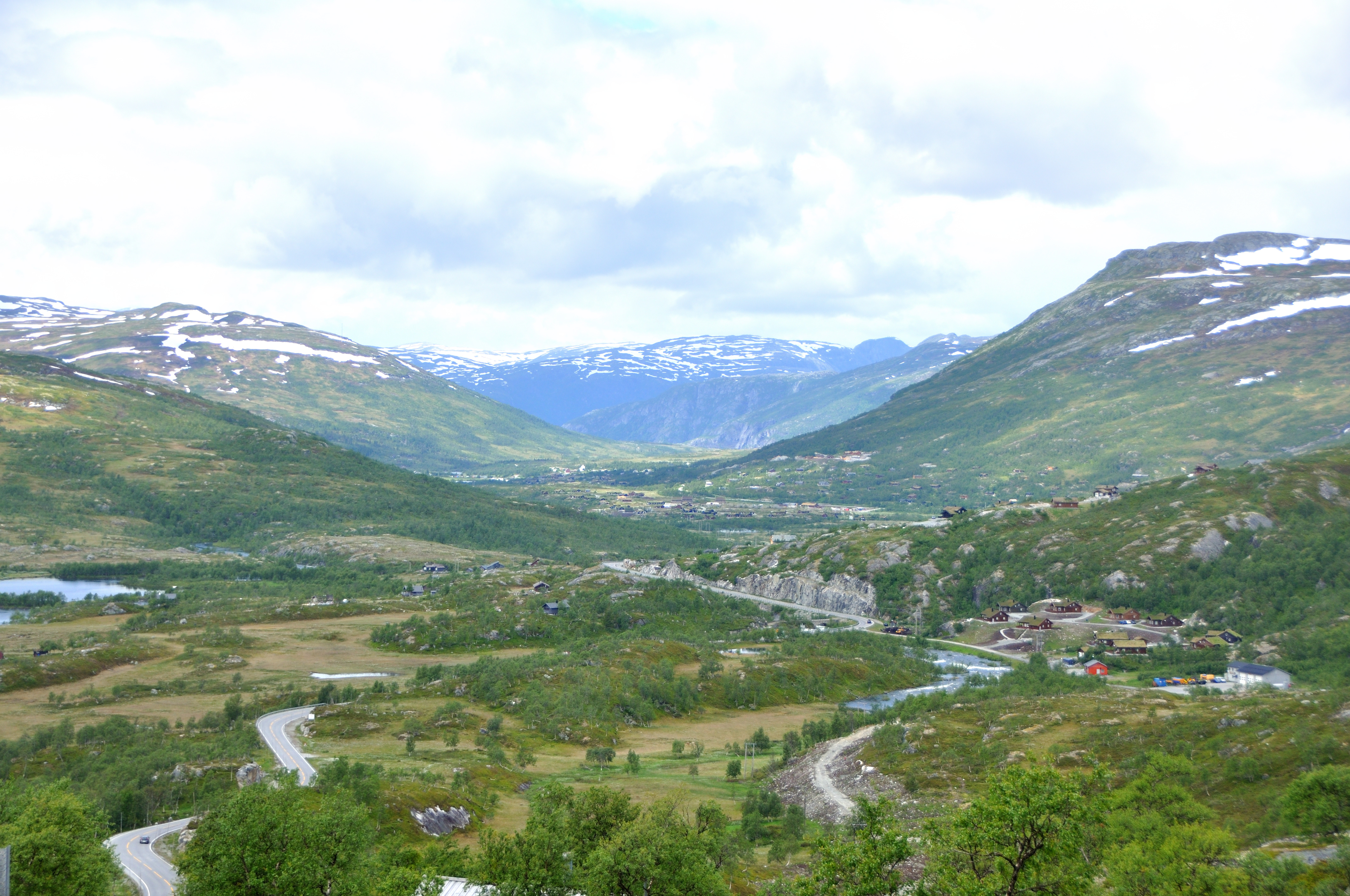 Sysendalen valley viewed downstream towards Måbødalen/Vøringsfossen from Sysendammen reservoir. Riksvei (road) 7 visible.